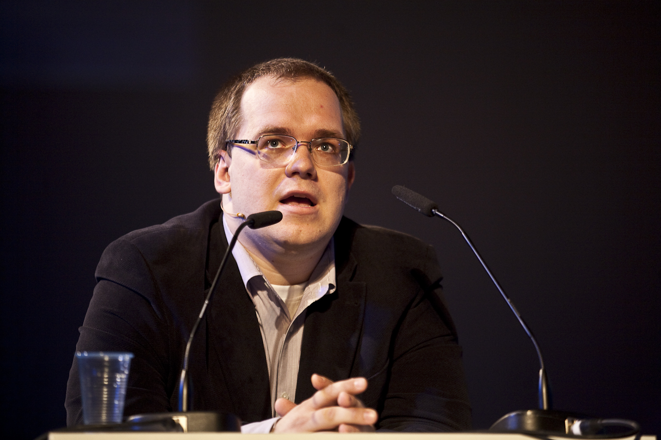 Evgeny Morozov bei seinem Vortrag "A Twitter revolution without revolutionaries". Photo by Daniel Seiffert